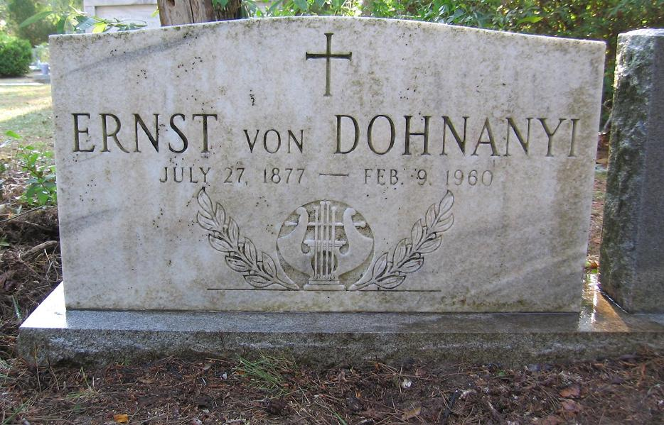 Grave site of Hungarian composer Ernst von Dohnanyi. This is the final resting place of Ernst von Dohnanyi (Ernő Dohnányi)at Roselawn Cemetary in Tallahassee, Florida, USA.